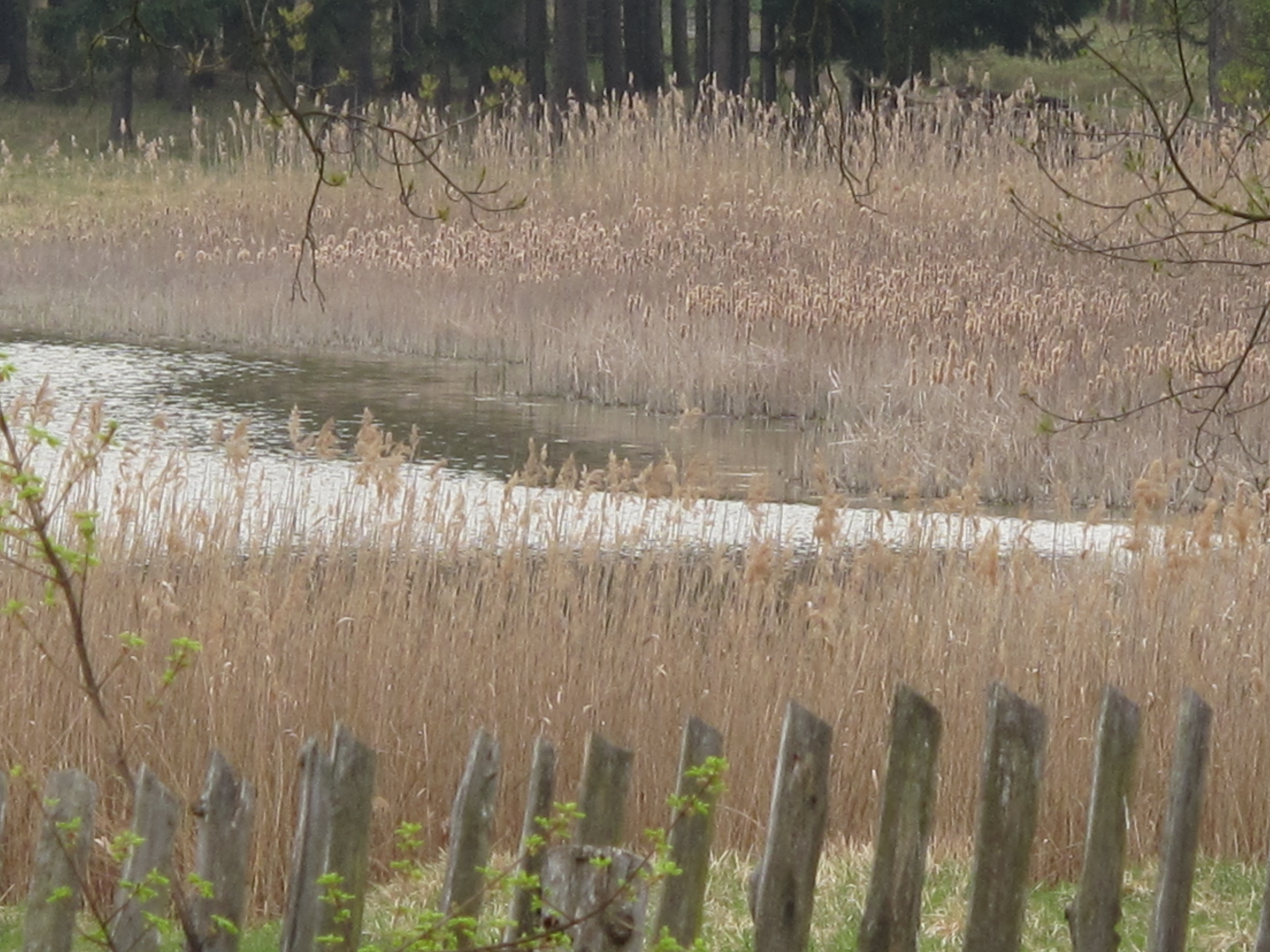 Water of Kopičácký rybník national natural monument with common reed (Phragmites australis) and Typha latifolia (?), Nymburk District, Czech Republic.